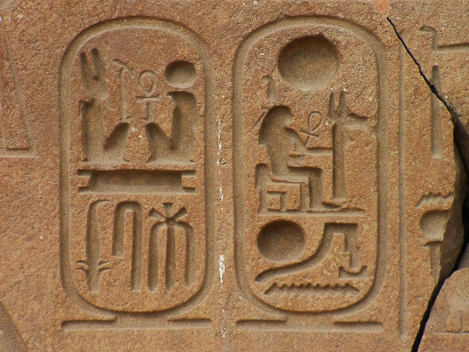 Ramses II's cartouches at Tanis